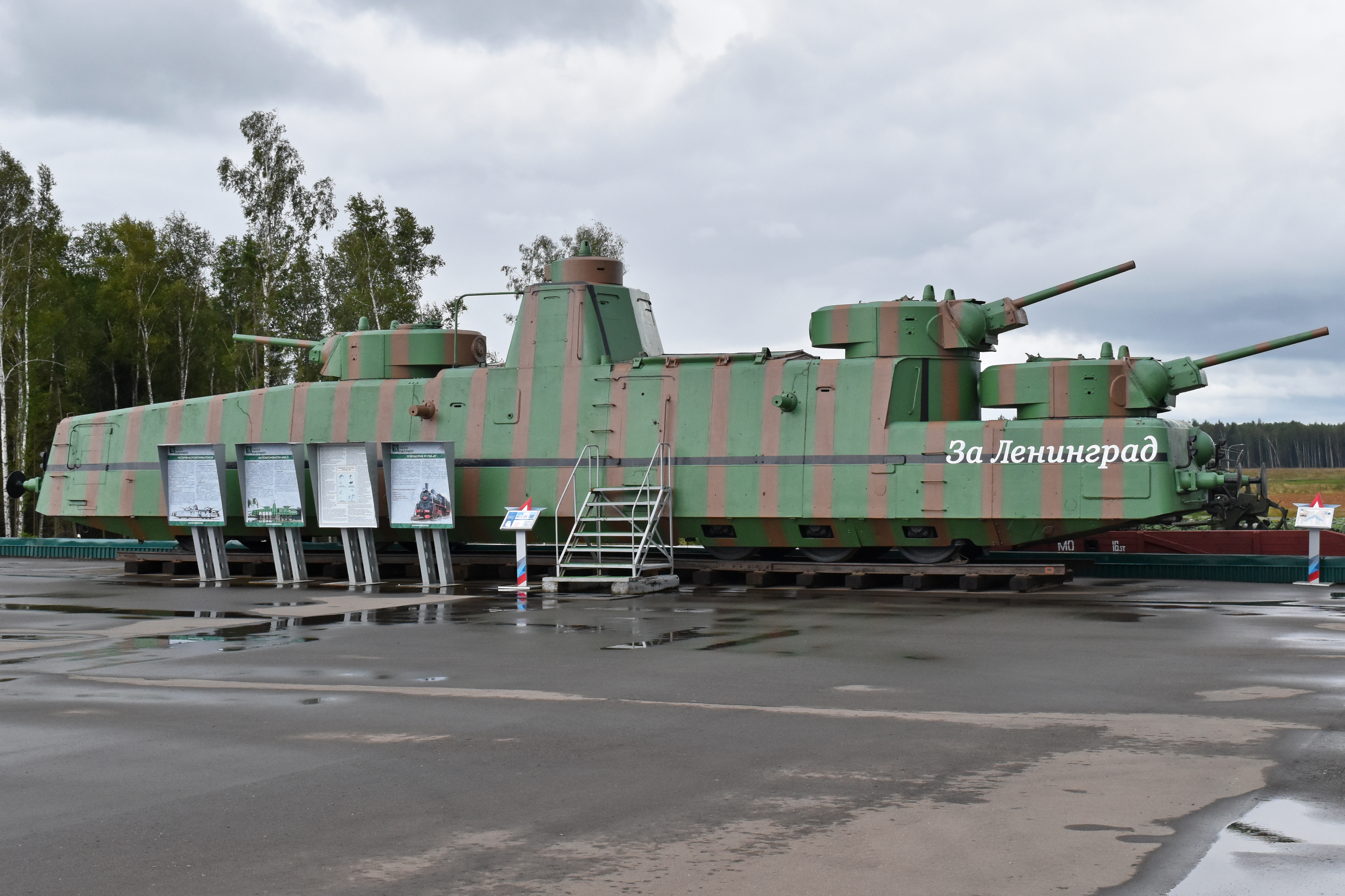 Built:- 1938 Manufacturer:- Kirov Plant, Leningrad Total Production:- 2 Main Armament:- Initially 2No 76.2mm KT-28 cannons in T-28 tank turrets. This was later upgraded to a pair of L-11 / F-34 guns from T-34 Medium tanks, also 76.2mm. The MBV-2 trains were generally deployed as ranged fire support weapons or as deterrents along key fronts. Their firepower was capable of stopping any light or medium-armoured German tanks throughout the war, making them a credible threat. Although the extensive Soviet rail network meant that they were not particularly restricted on location, the amount of armament, armour and ammunition made them extremely heavy which meant careful planning to avoid lighter routes. They could also serve in the static defence role if required. Saved for preservation after WW2, it is now on display in Area 1 of the Patriot Museum Complex. Park Patriot, Kubinka, Moscow Oblast, Russia. 25th August 2017